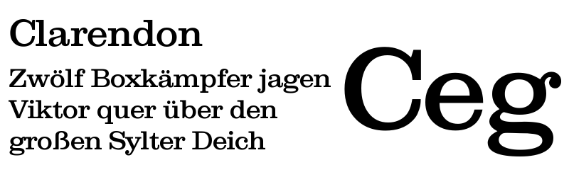 german pangram in typeface Clarendon